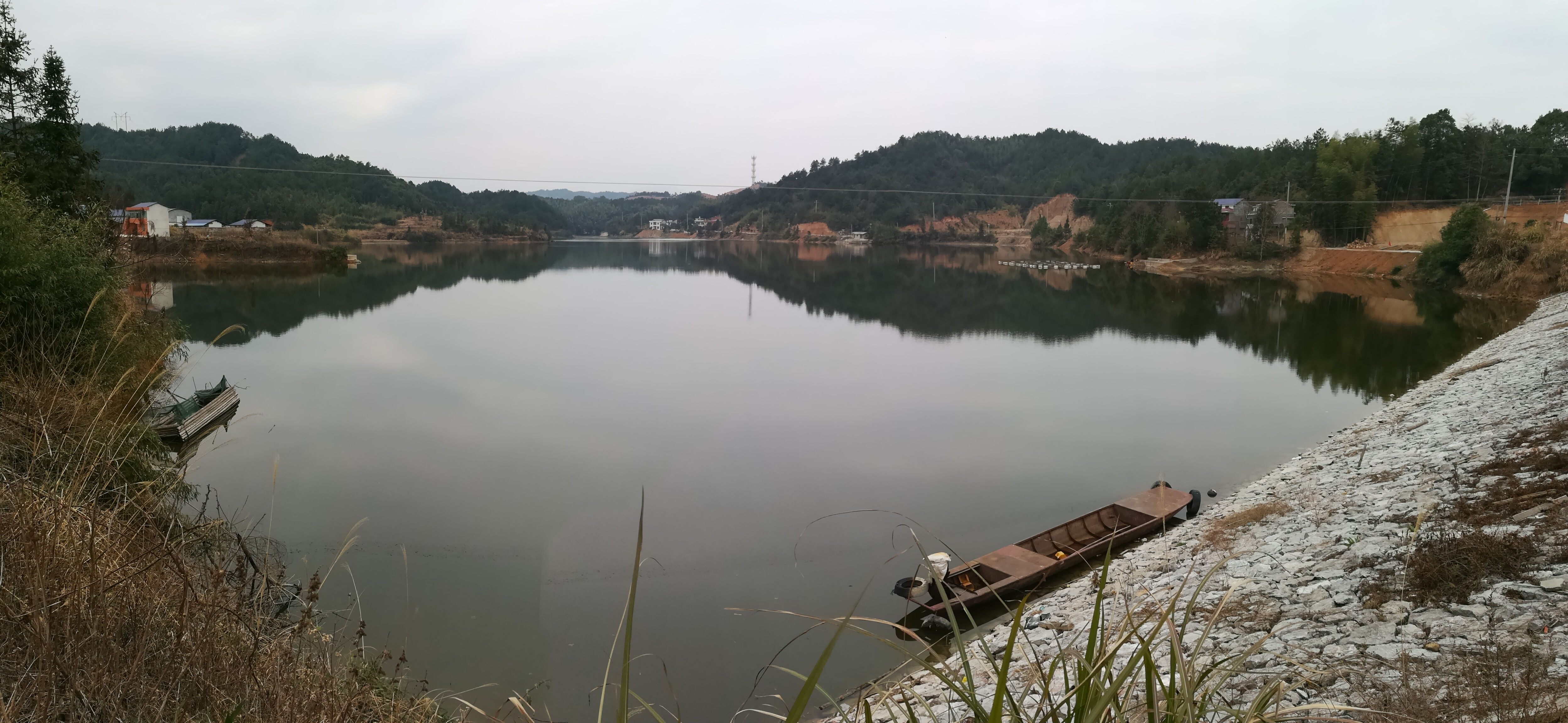 Panoramic view of Huayuan Reservoir, in Qingshanqiao Town of Ningxiang, Hunan, China.